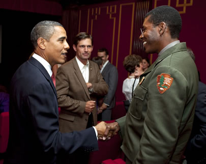 A photograph of President Barack Obama and Yosemite National Park ranger Shelton Johnson